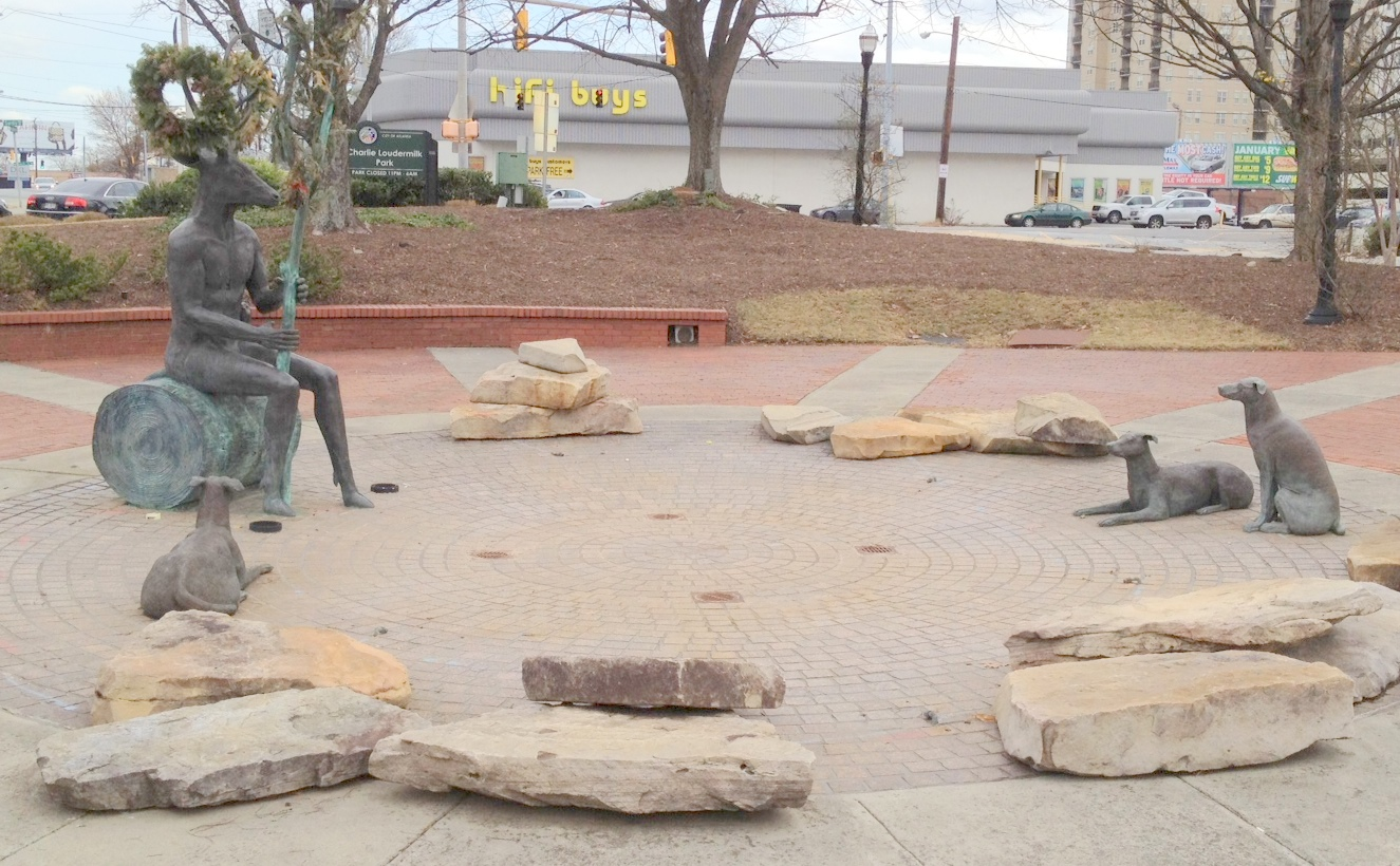 The Storyteller sculpture in Buckhead, Atlanta